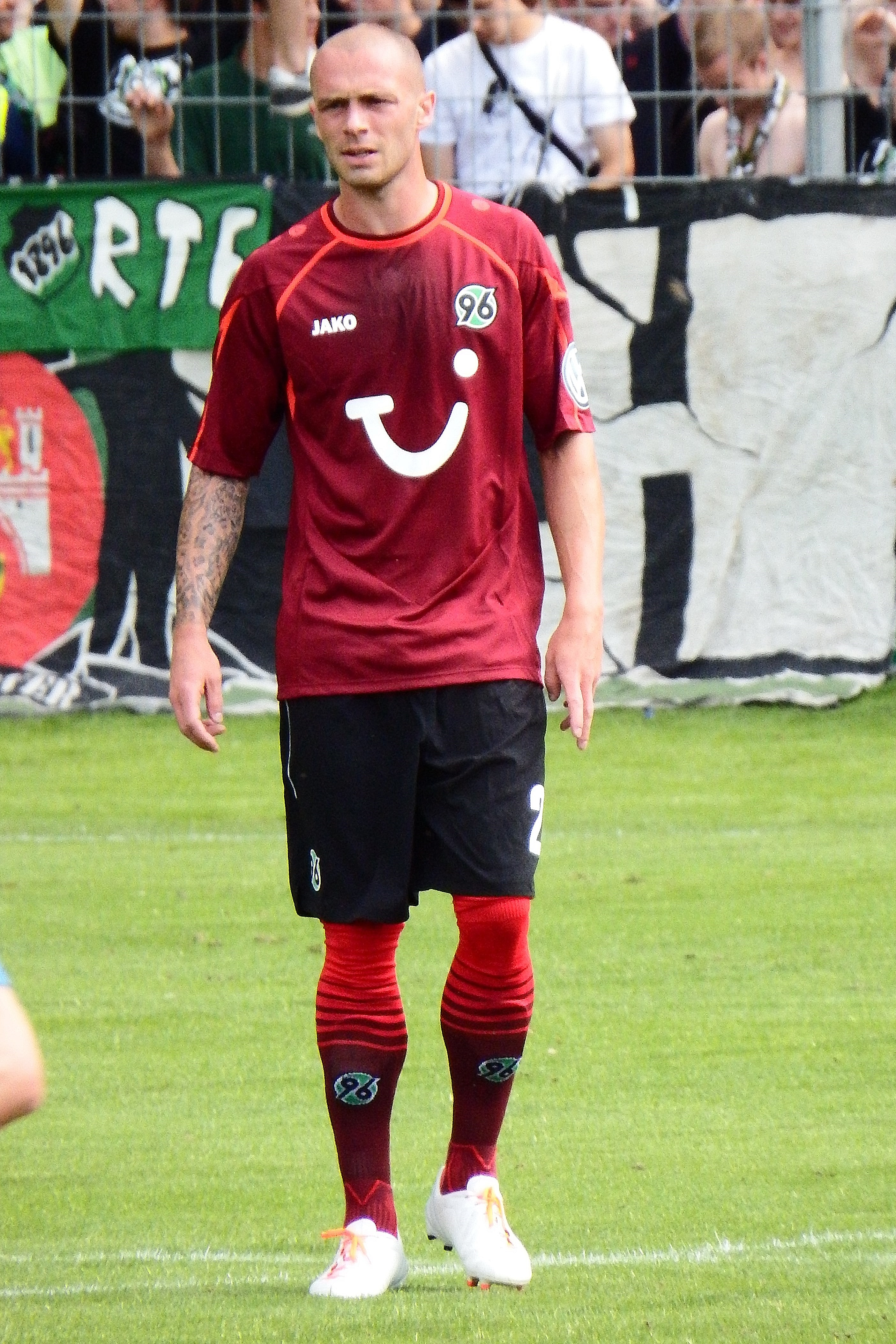 Christian Pander as Player from Hannover 96